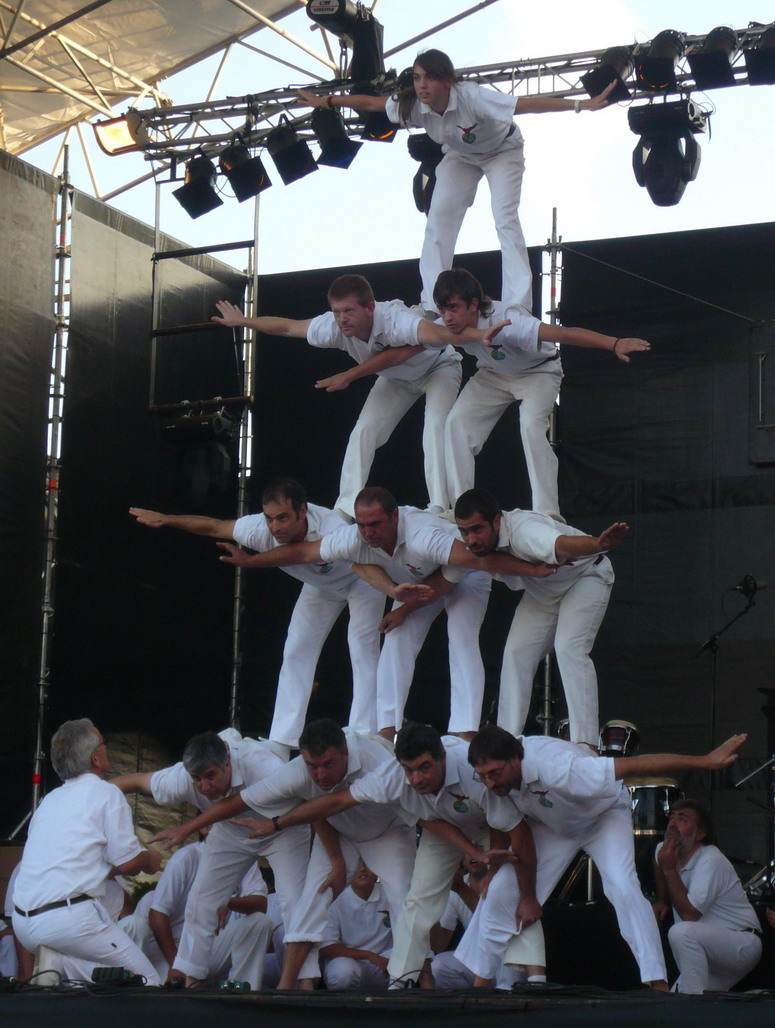 Falcons de Llorenç del Penedès in Barcelona